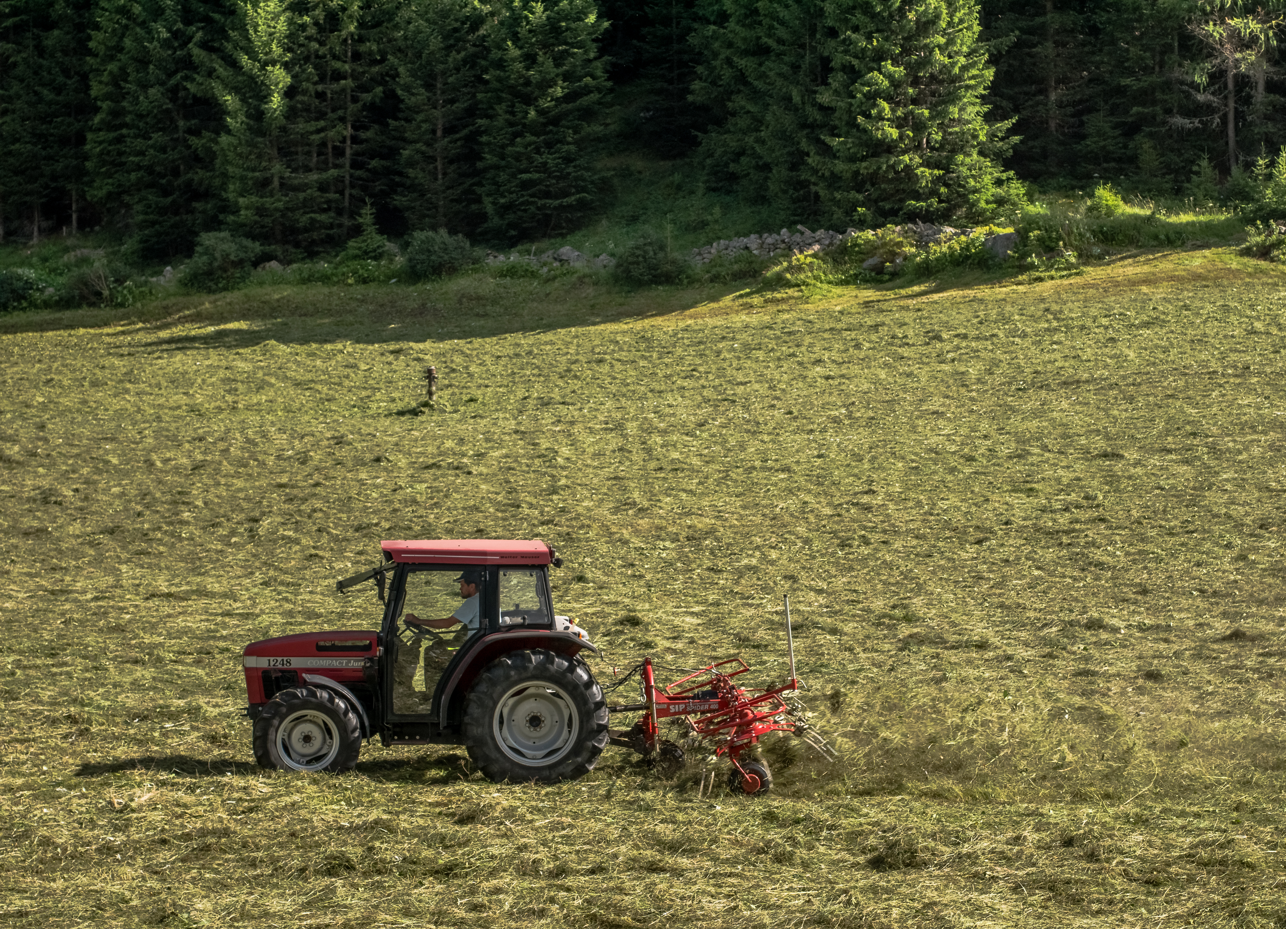 Hay harvest: a tractor (Waco Compact Junior 1248) turns hay. Galtür, Tyrol, Austria